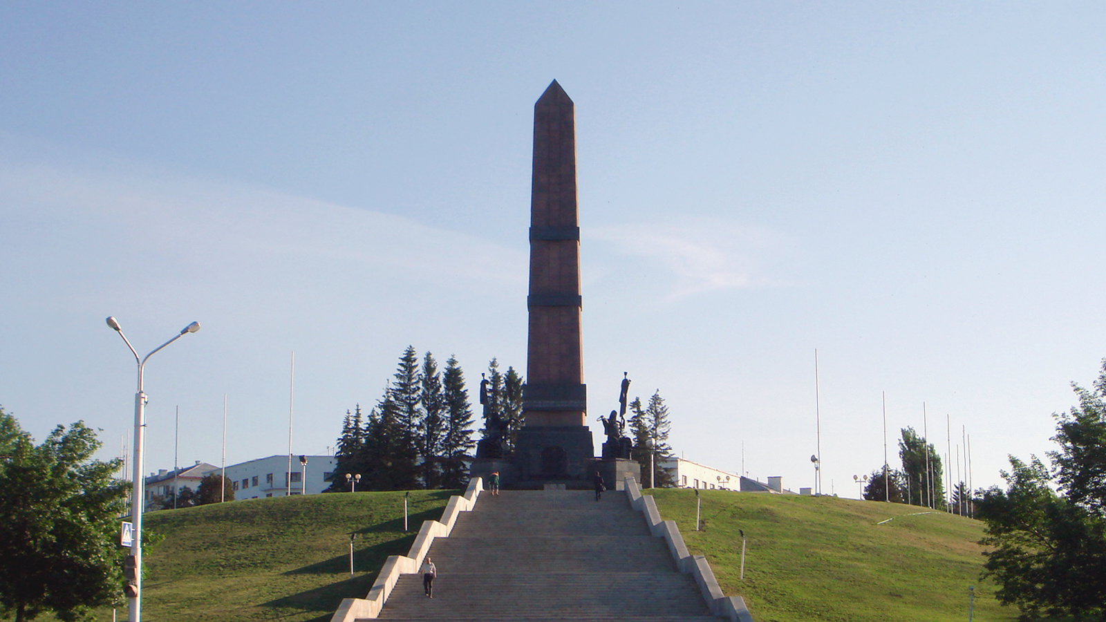 Monument of Unity